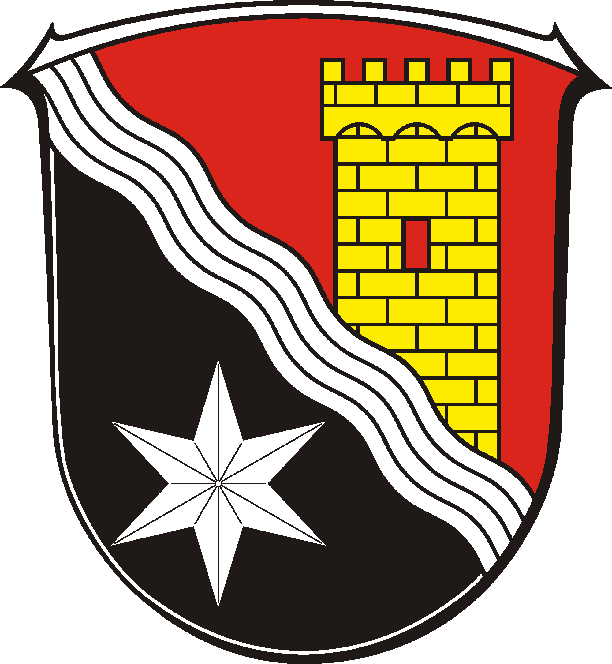 Coat of Arms of Gilserberg